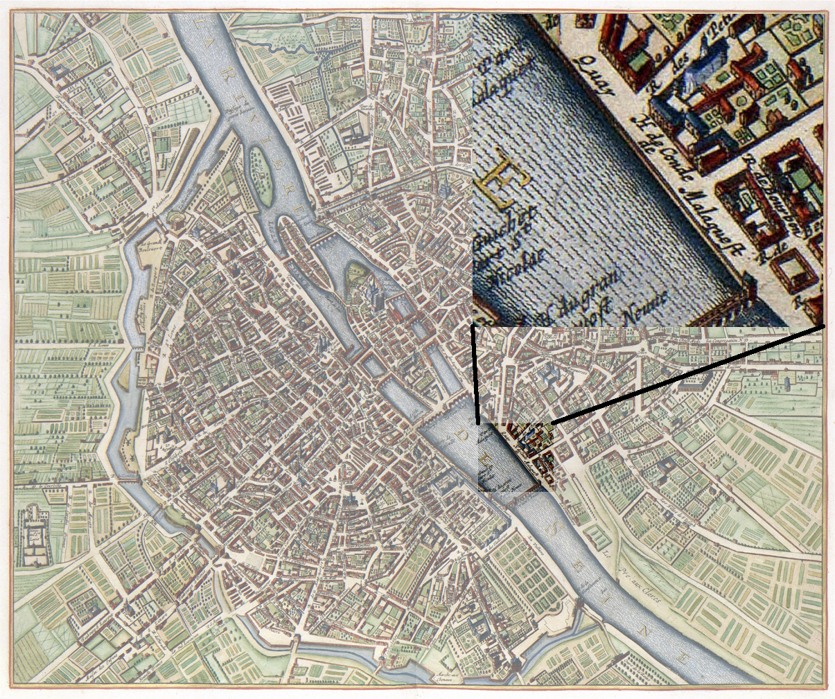 Quay de Malaquest in Paris in the first halve of the 17th century